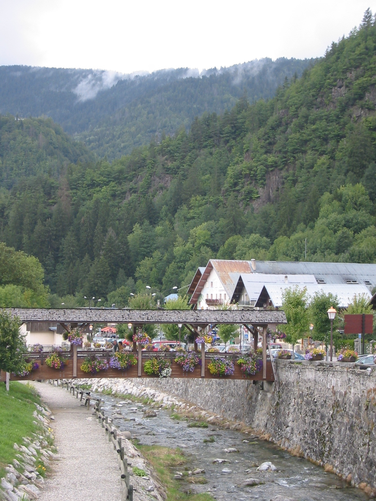 Bridge with flowers on Doron river, Beaufort, Savoie, France, 2006.